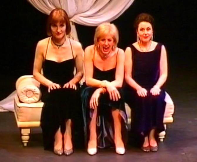 Photo of Dillie Keane, Adele Anderson and Marilyn Cutts in performance. Taken during Fascinating Aida's Barefaced Chic! run at the Lyric Hammersmith in 2000.